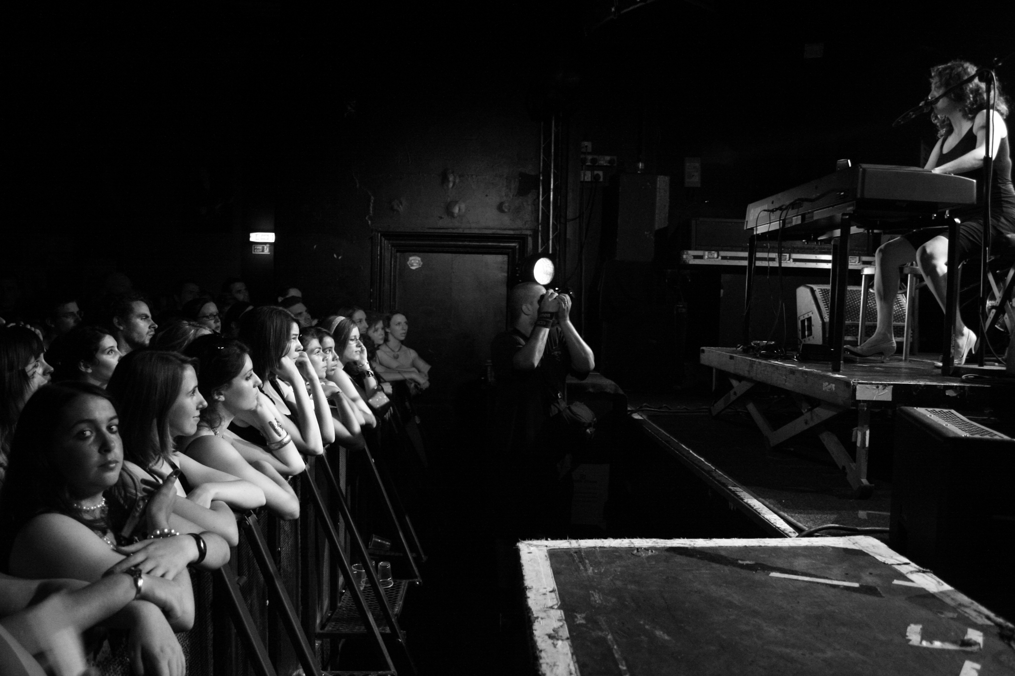 Regina Spektor performing at the Concorde in Brighton on 2006-07-26